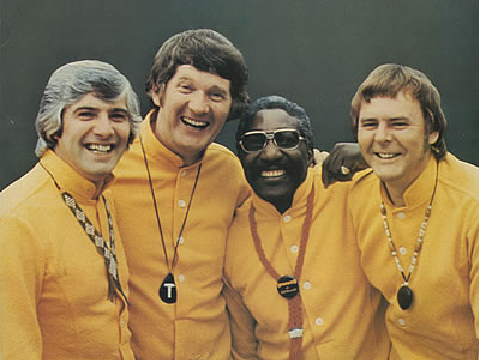 seefdsf